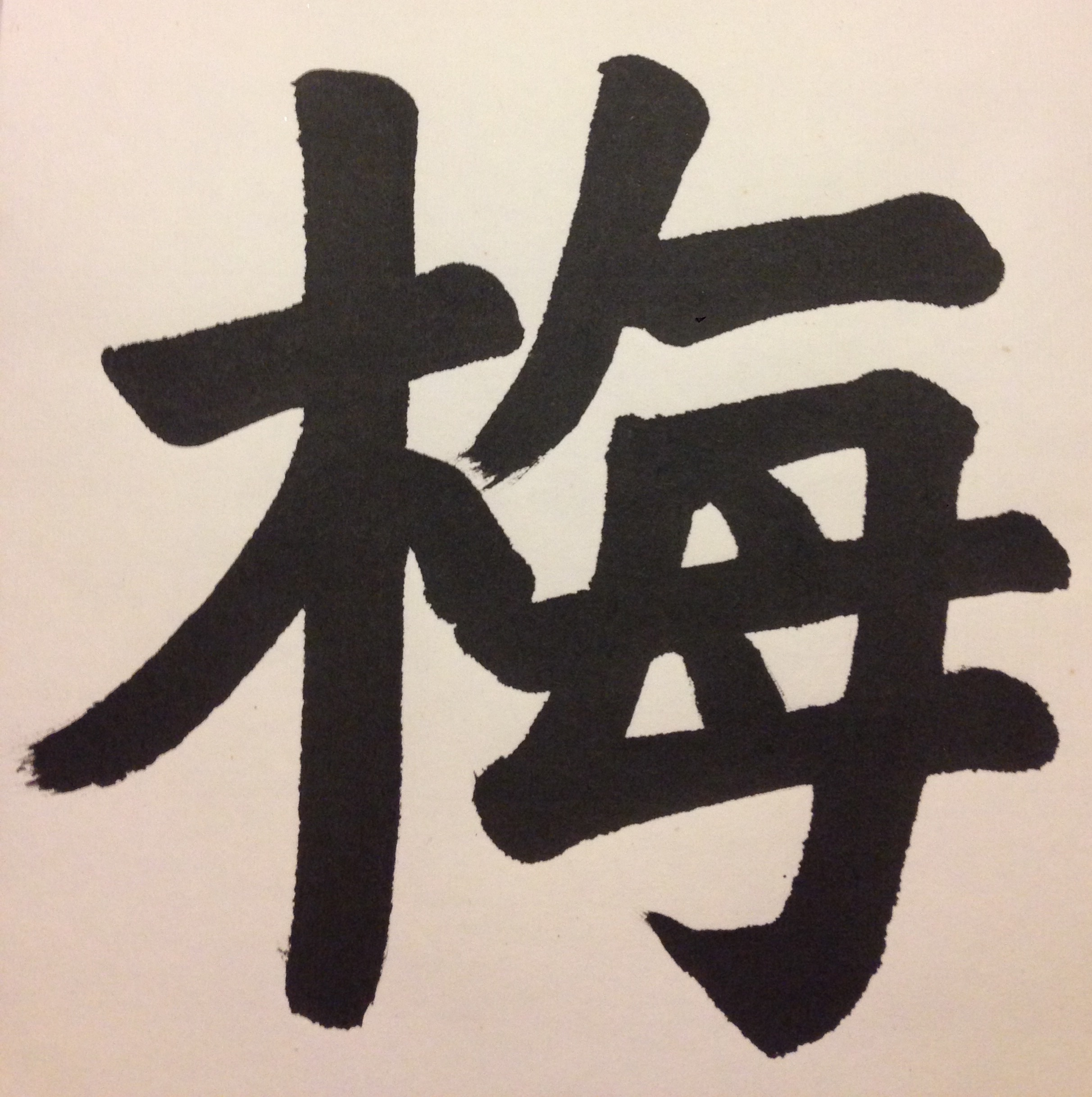 Photograph of original Chinese calligraphy rendition of the surname, "Mei." Produced in 2010